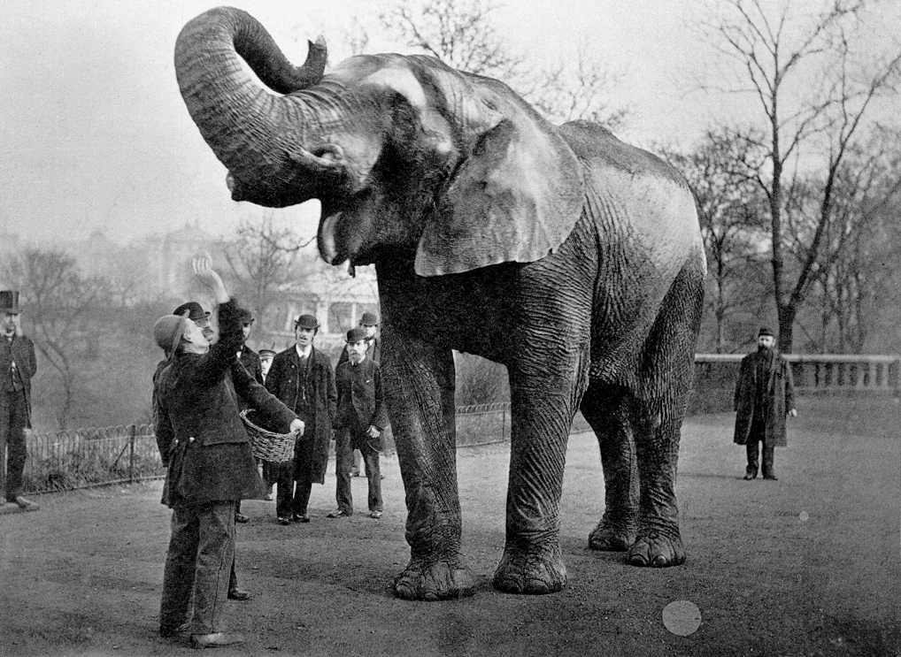 Jumbo and his keeper Matthew Scott